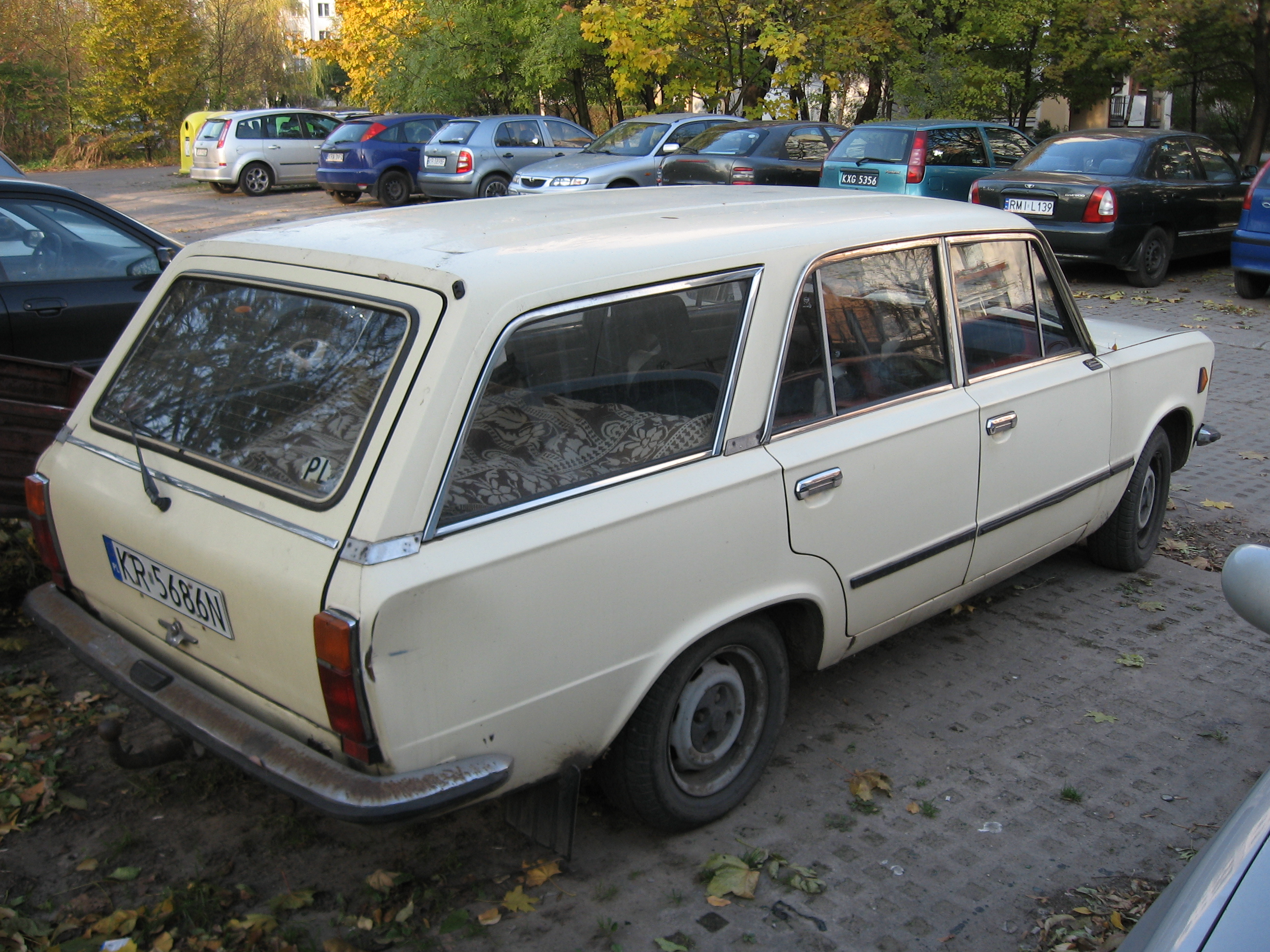 Beige FSO 125p Kombi on parking lot at Osiedle Podwawelskie in Kraków. This particular example was produced between April 1984 and January 1986.